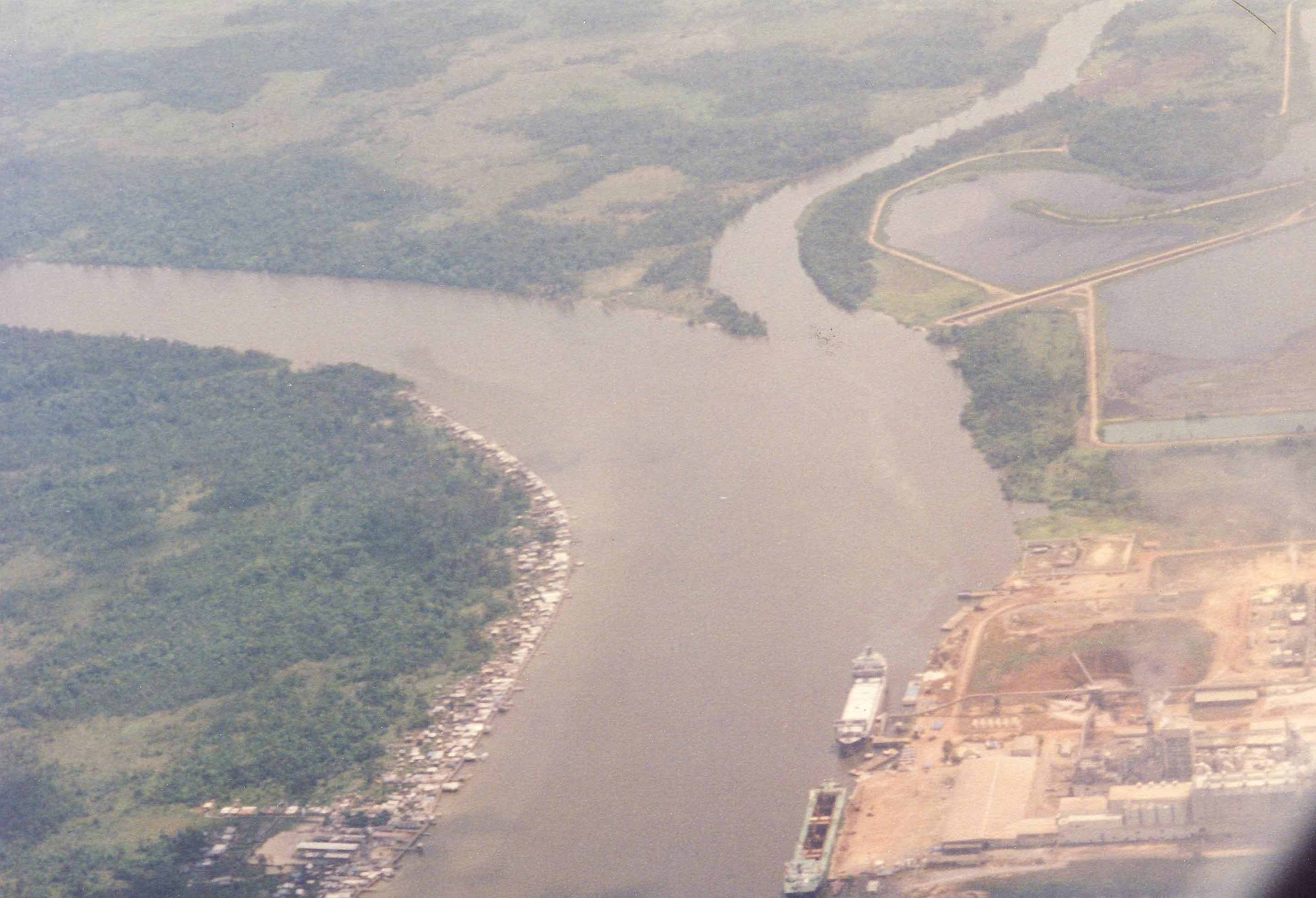 View over the Jari River with the Celulose Plant and the Chlorolakes - 1995